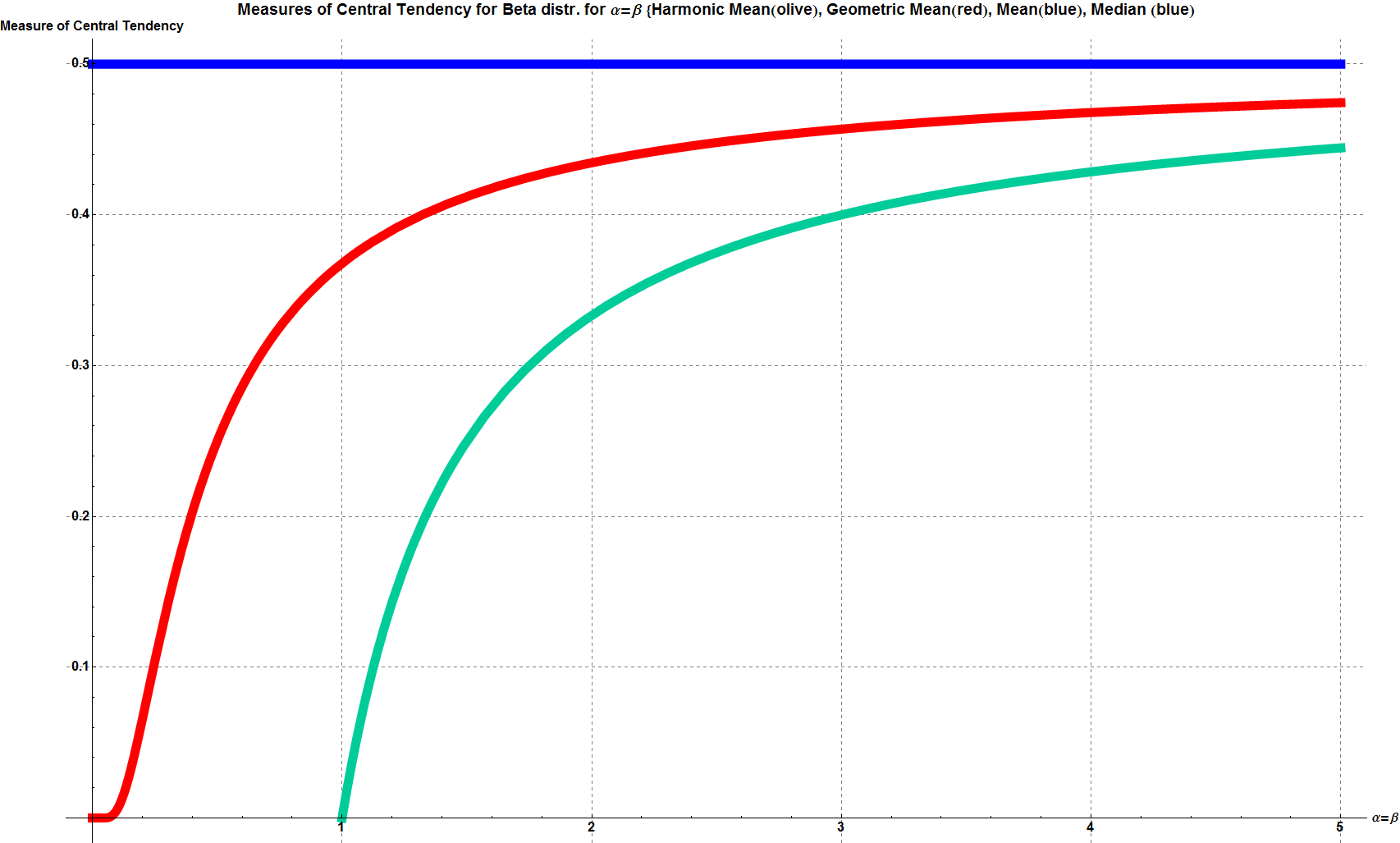 Mean, Median, Geometric Mean and Harmonic Mean for Beta distribution with alpha = beta from 0 to 5 - J. Rodal